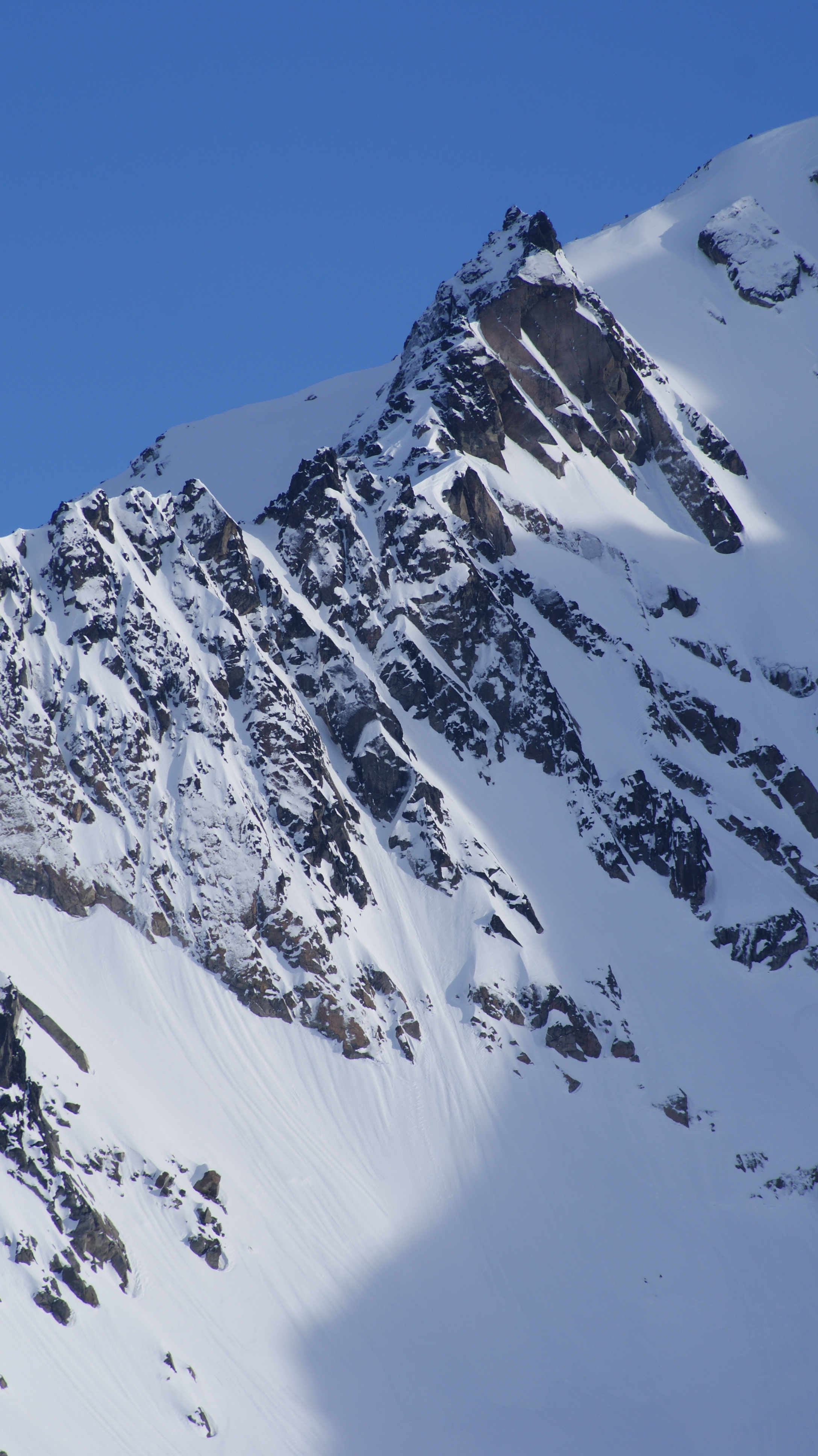 Pinnacle in the northwestern ridge of Qalorujoorneq, at 676m the highest mountain on Kulusuk Island, Greenland.